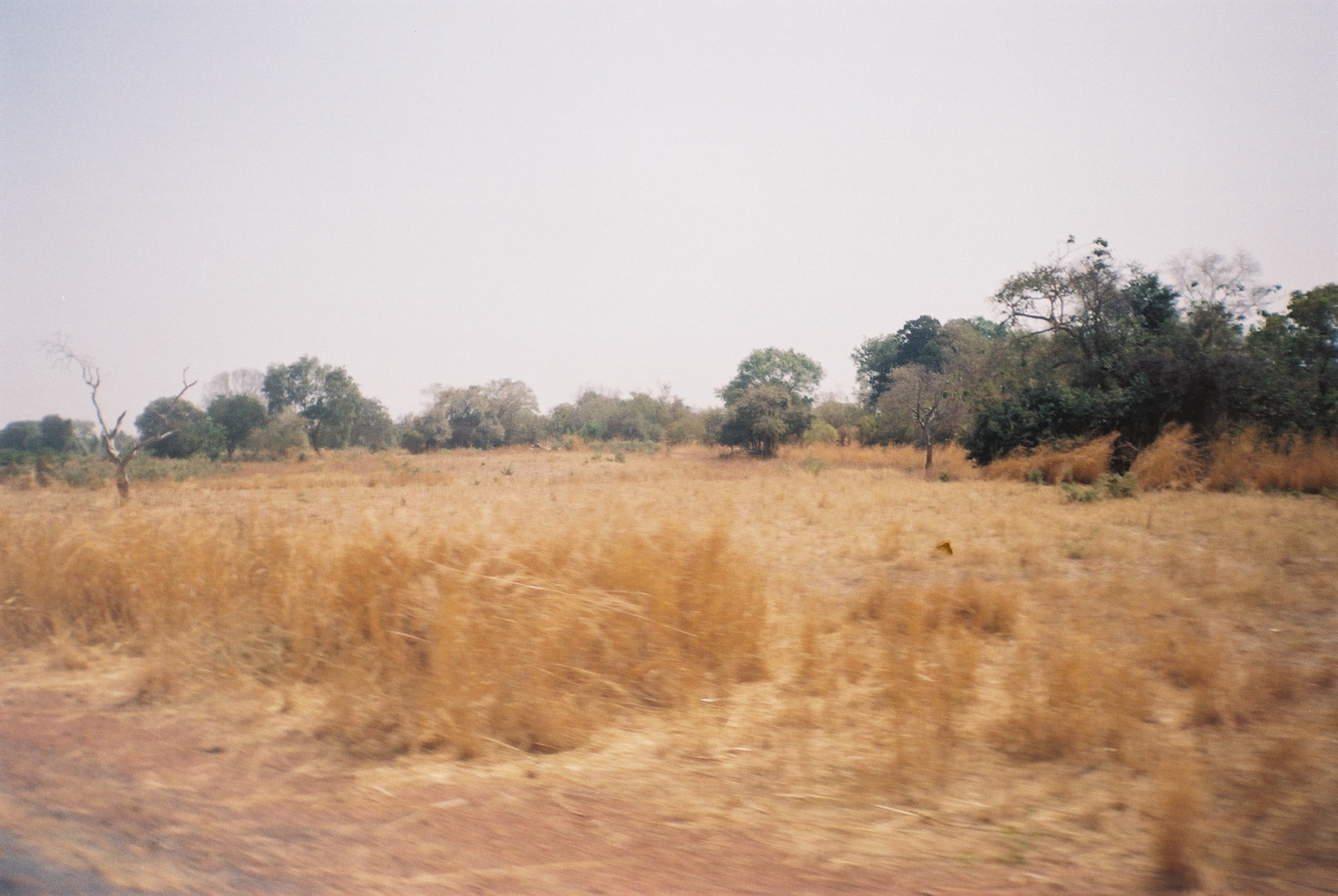 Typical landscape of the Sudan region, northern Gambia